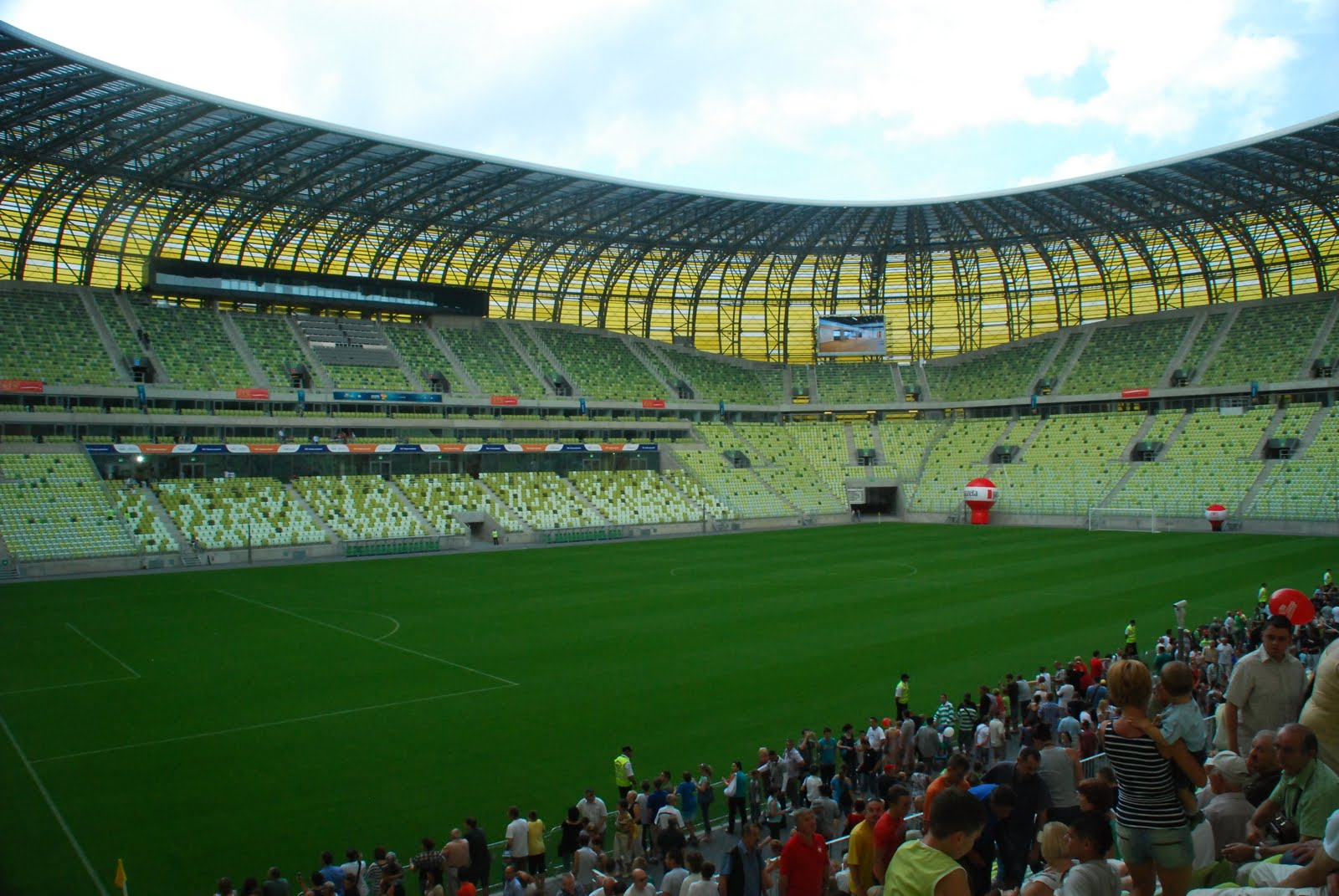 PGE Arena Gdańsk